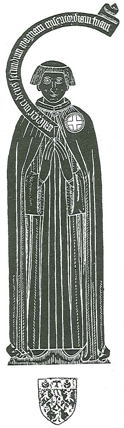 Brass rubbing of monumental brass in Eton College Chapel, Berkshire (formerly Buckinghamshire), of Roger Lupton (died 1540), Doctor of Canon Law, Provost of Eton College and a Canon of Windsor. His hair displays the tonsure of a ceric. He wears the mantle of a Canon of Windsor, based in St George's Chapel, Windsor Castle, displaying on his left shoulder a Cross of St George within a circle (the cross of the Order of the Garter, as is stated in certain sources). A speech scroll emanating from his chest is inscribed in the Latin with the opening words of Psalm 51: Miserere mei Deus secundum magnam misericordiam tuam ("Have mercy upon me, O God, according to thy loving kindness" (Text per King James's Bible)). Below is an heraldic escutcheon displaying the arms of Roger Lupton: Argent, on a chevron between three wolf's heads erased sable three lilies argent on a chief gules a Tau cross between two escallops or. The Tau cross was a symbol of Saint Anthony of Egypt and thus probably referred to his Mastership of St Anthony's Hospital in the parish of St Benet Fink, in the City of London. The wolves were canting references to his surname from the Latin Lupus, "a wolf", and the arrangement Sable, three lillies argent (three white lillies on a black field), is the base part of the arms of Eton College.